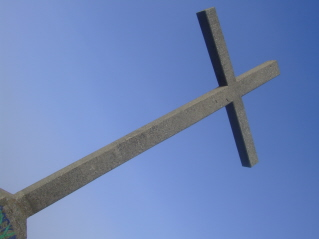 The cross at the summit of Bray Head. Taken by karl O'Leary February 2007.